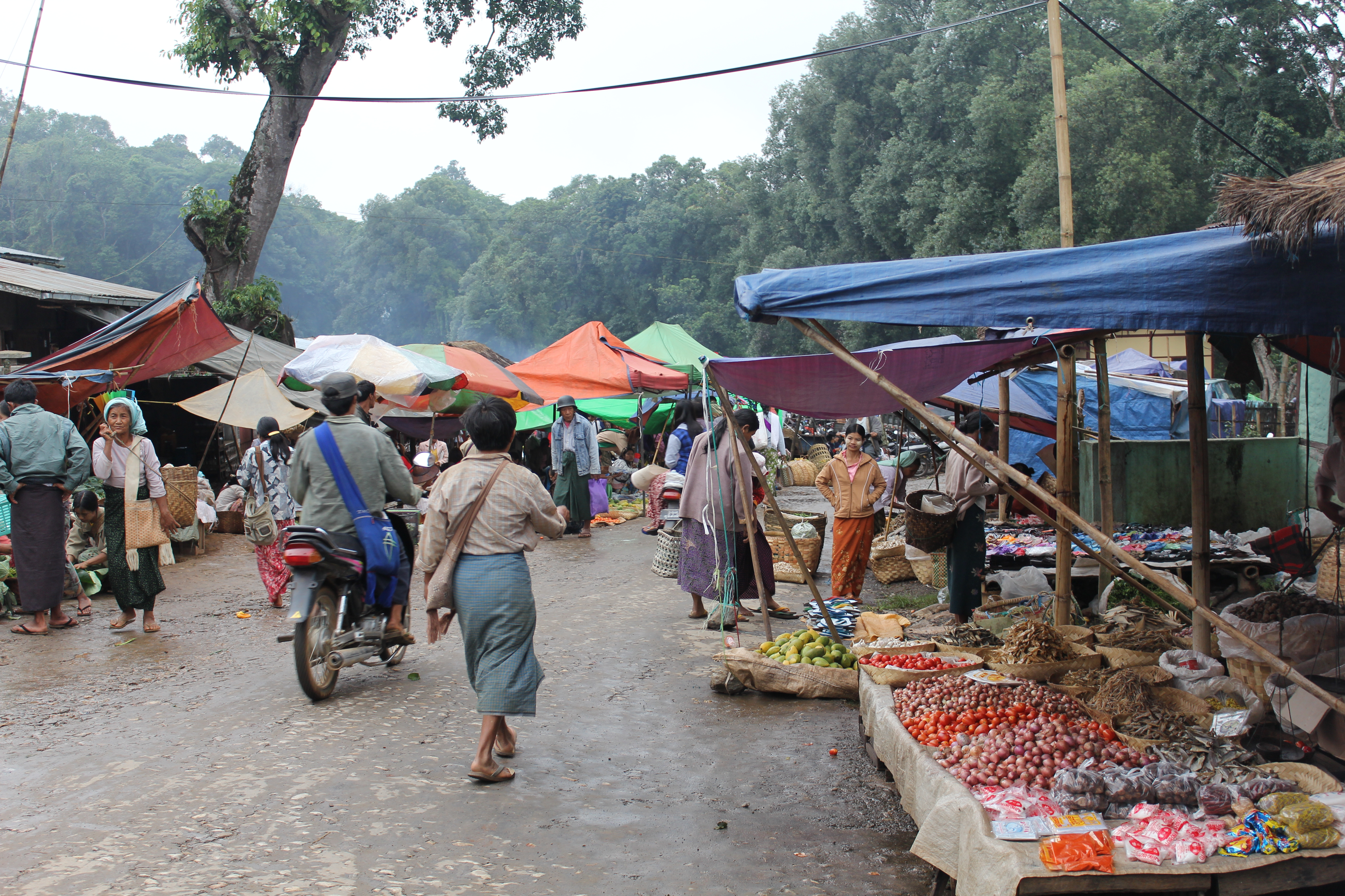 Shan street bazaar, market in Myanmar မြန်မာဘာသာ: ရှမ်း ခုနစ်ရက် ဈေး